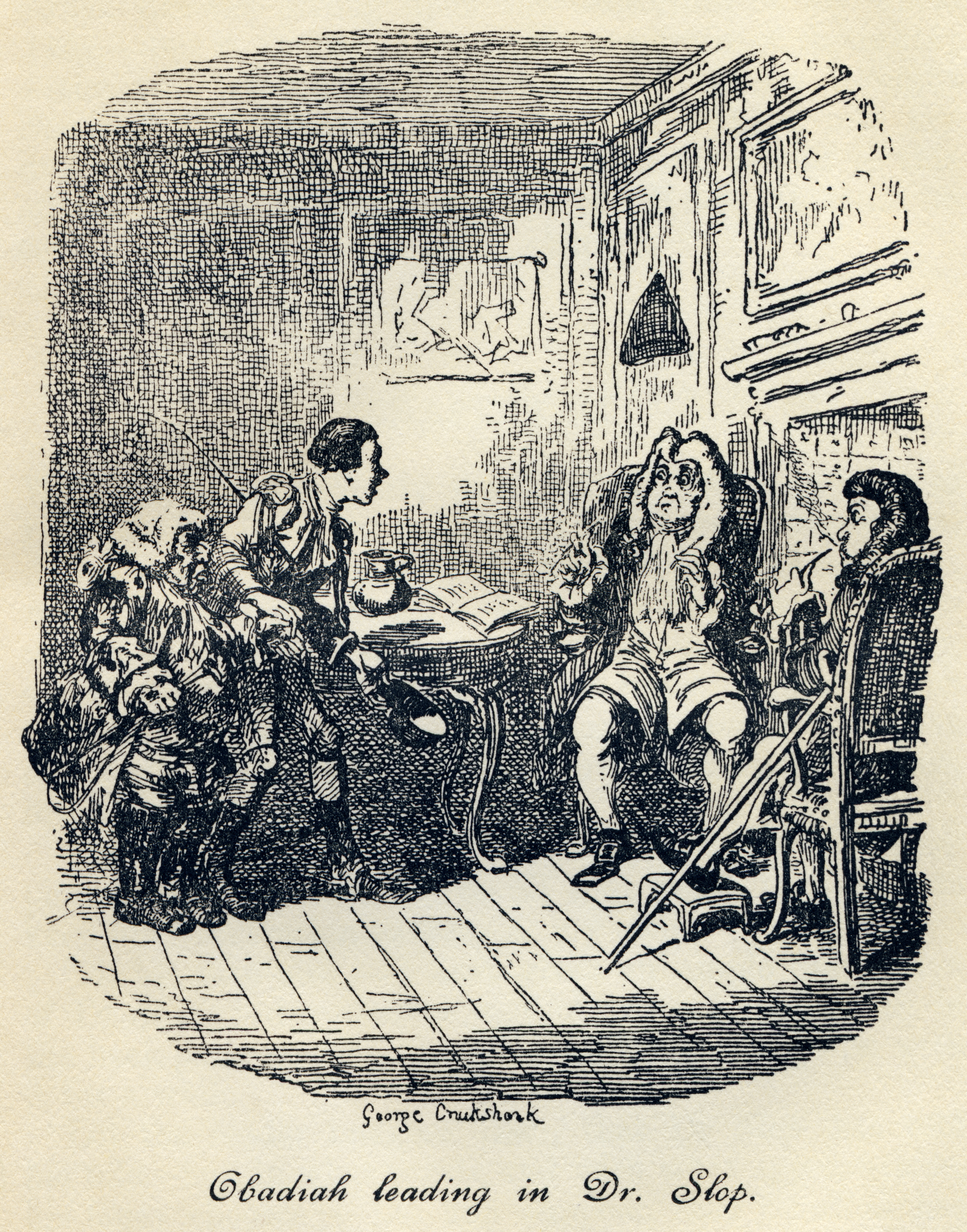 From George Cruikshank's illustrations to Laurence Sterne's Tristram Shandy. Plate II: Obadiah leading in Dr. Slop From left to right, Dr. Slop, Obadiah, Walter, and Uncle Toby. From Book II, Chapter X.